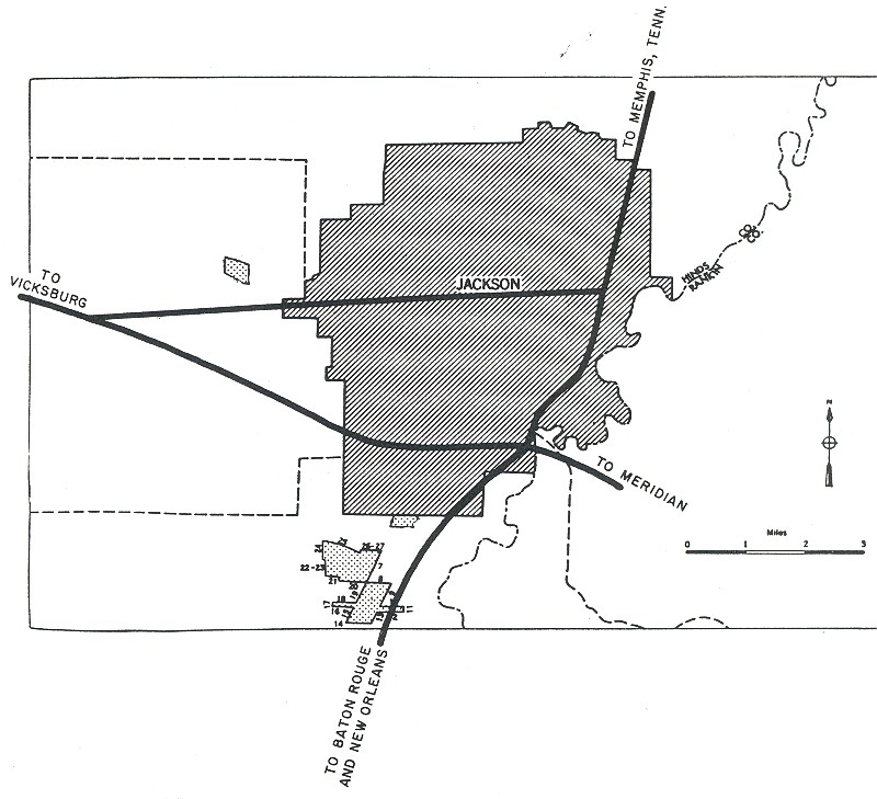 Interstates in today's terms I-20 I-55 I-220 (built further north)